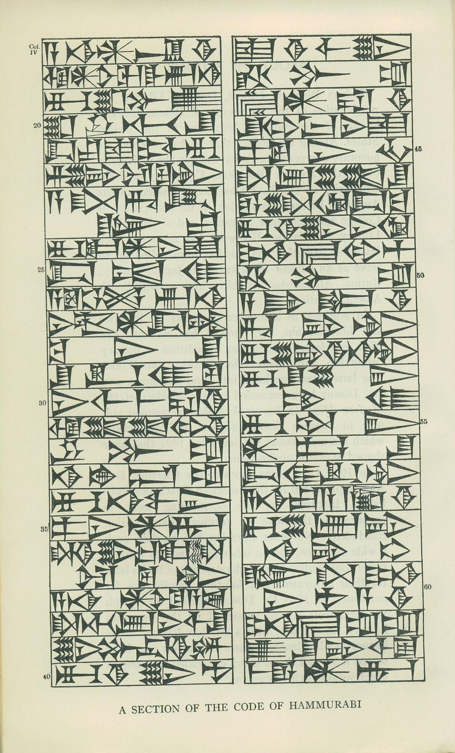 A section of the Code of Hammurabi. Extracted from File:Code of Hammurabi (1904).pdf (p. 225—226)